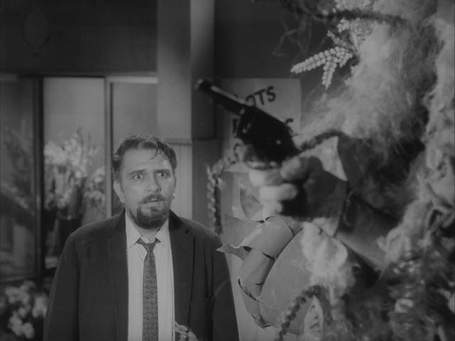 A scene from The Little Shop of Horrors.